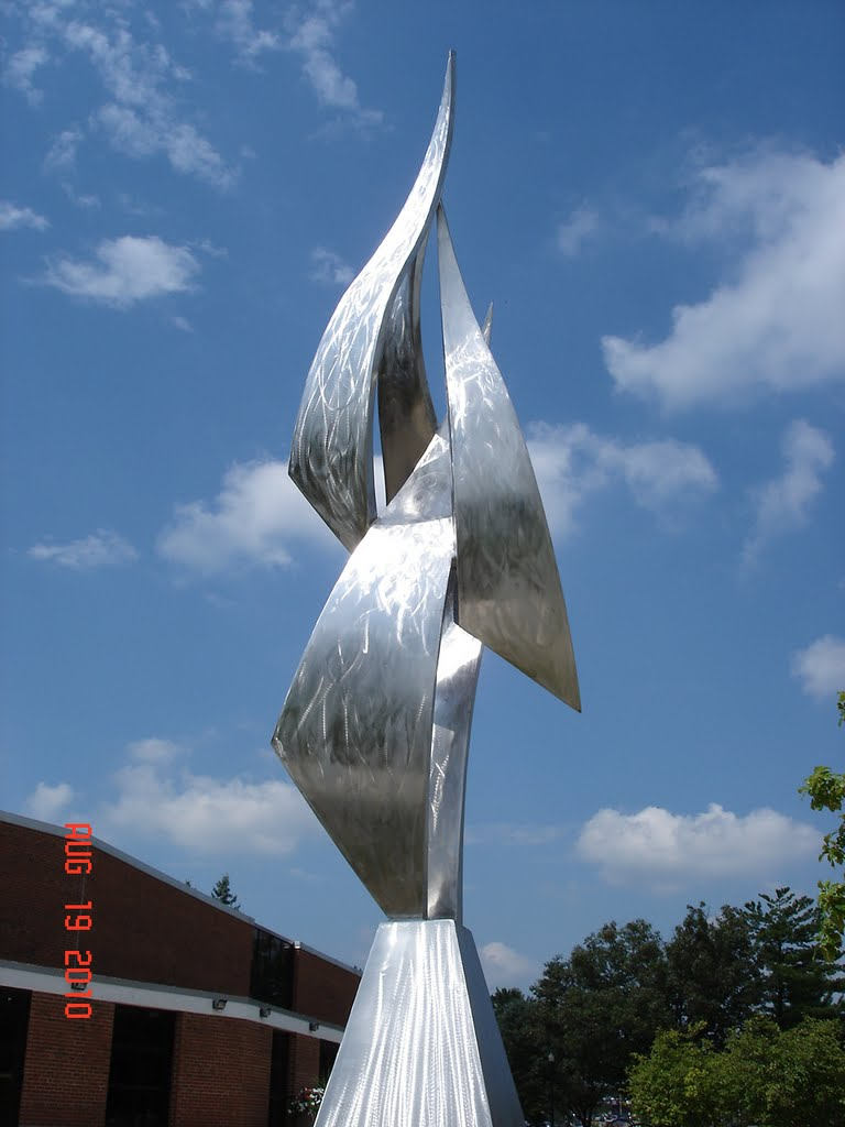 Photo of the sculpture in the memorial garden at NIU